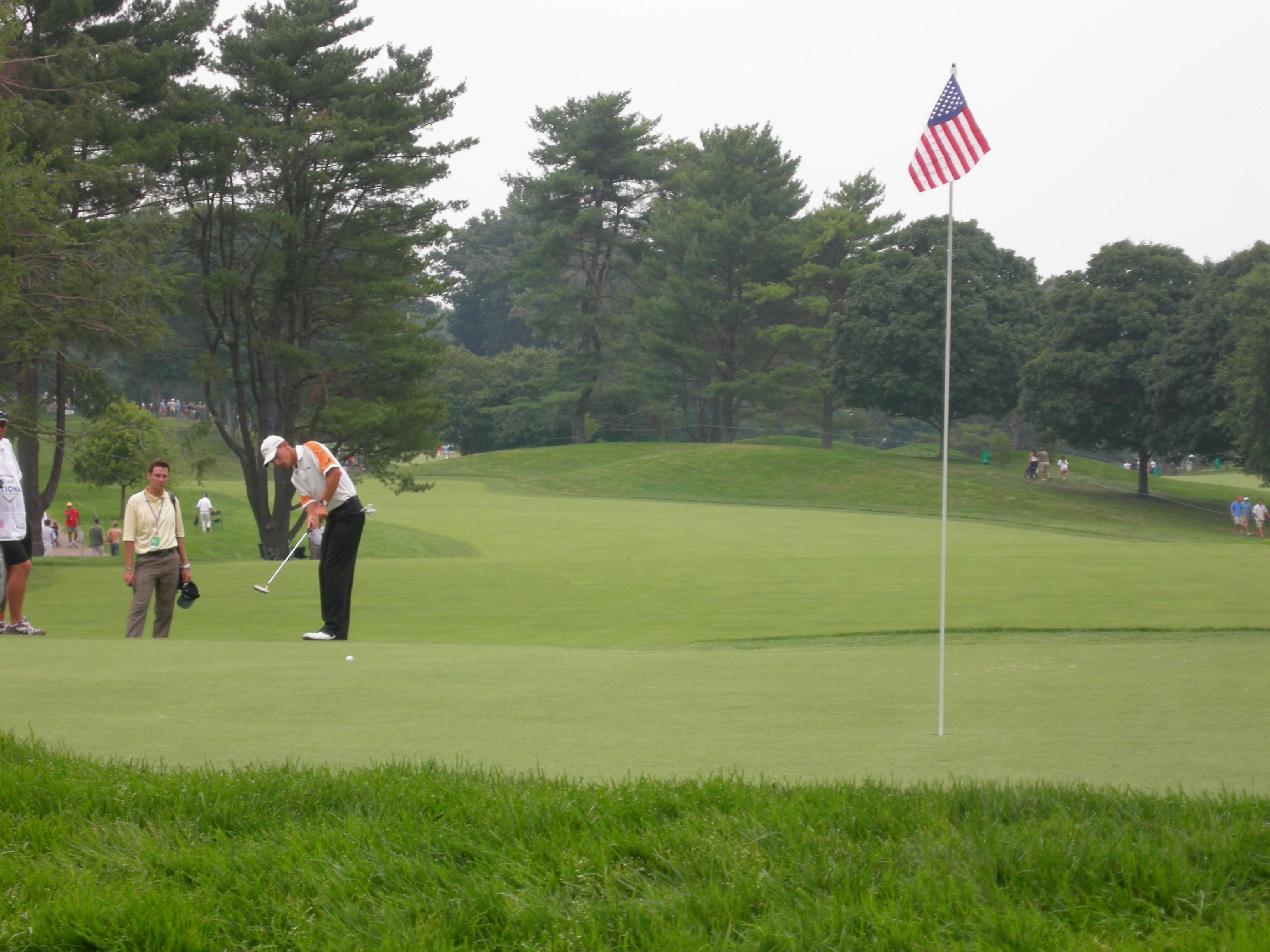 Charles Howell III putting on the 4th green of the Congressional Country Club's Blue Course during the Earl Woods Memorial Pro-Am prior to the 2007 AT&T National tournament.